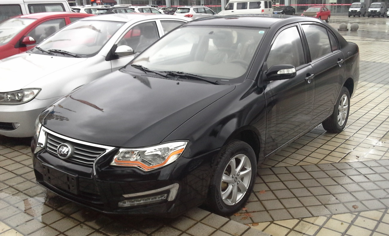 Lifan 630 photographed in Shanghai, China.